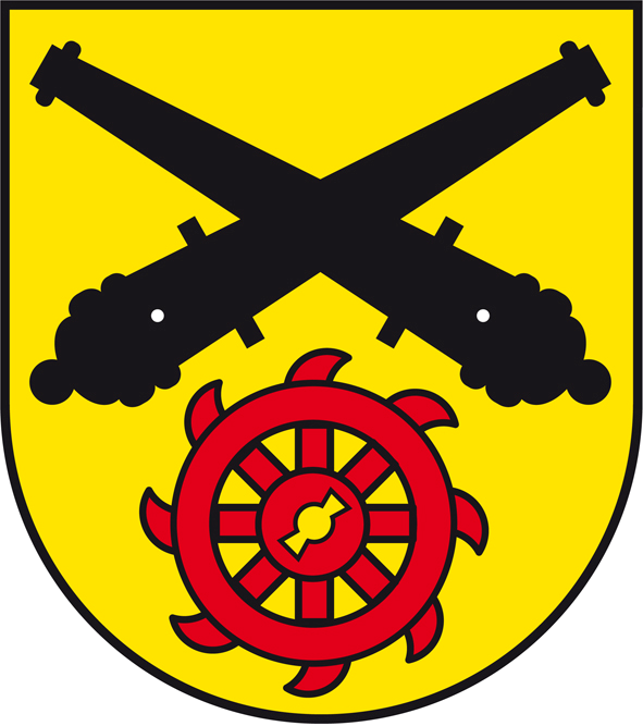 Coat of arms of Dörnitz, Part of Möckern